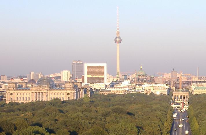 Berlin - view from Siegessäule with viewing direction east during sunset